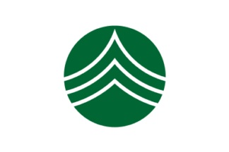 Flag of Kurotaki Nara